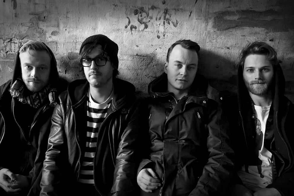 Photo by Betina Garcia